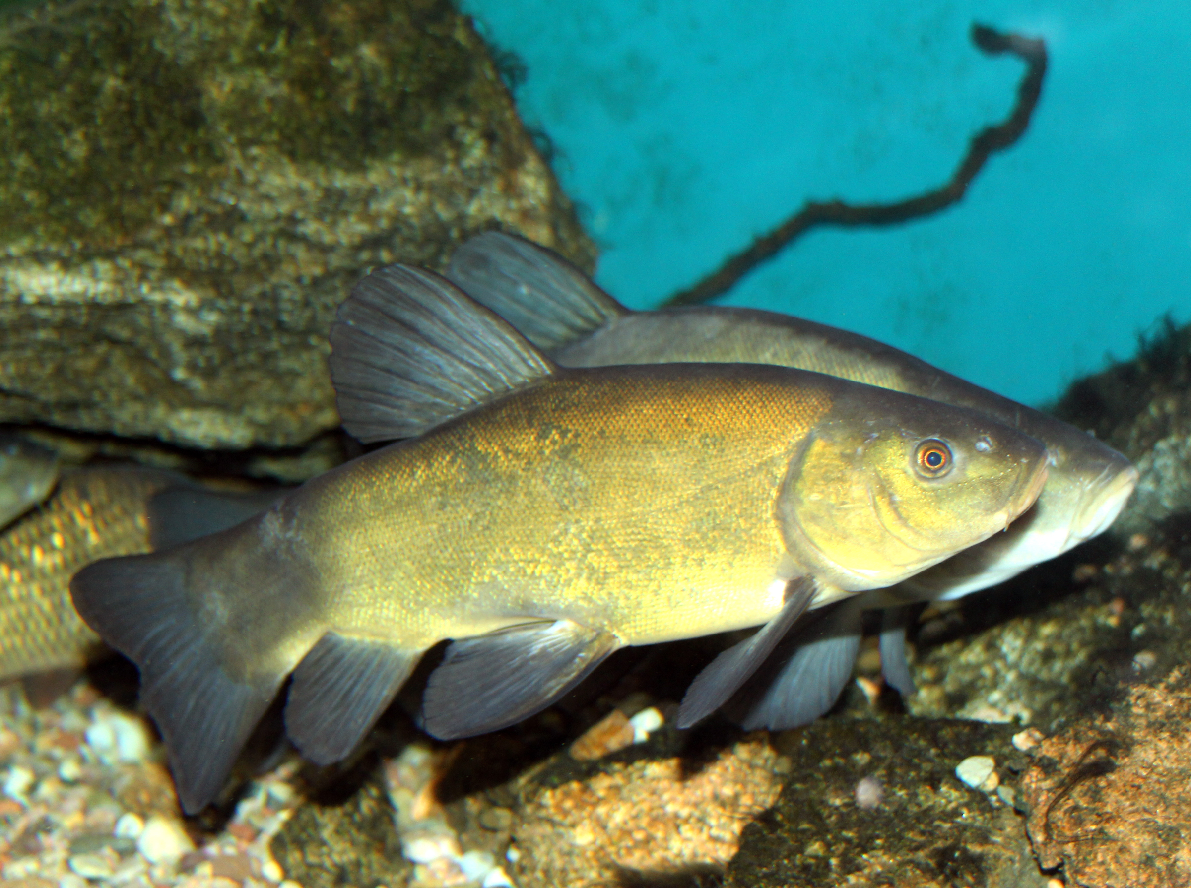 Fish Tench on exhibition Subaqueous Vltava, Prague 2011, Czech Republic